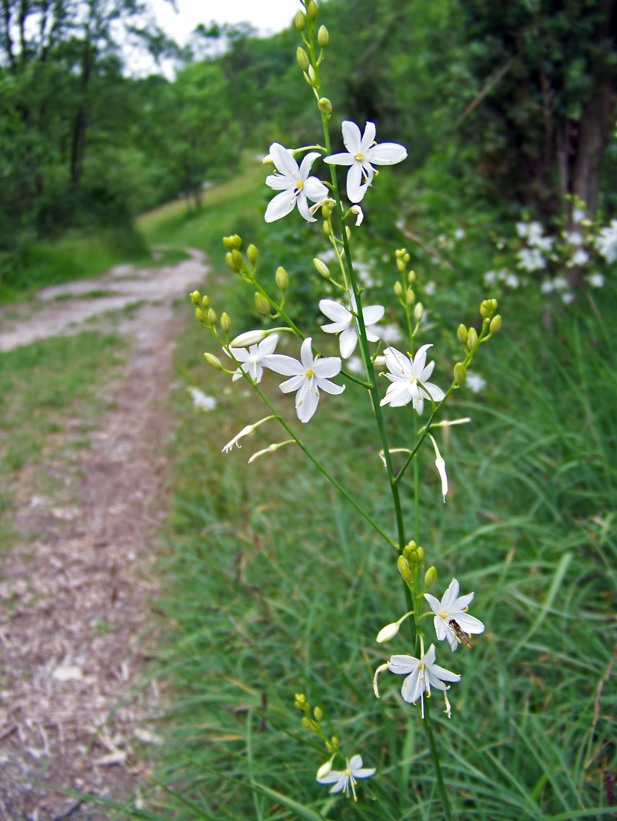 The valley and nature reserve Leutratal (in the environs of Jena), Thuringia, Germany: Branched St. Bernard's-lily (Anthericum ramosum).